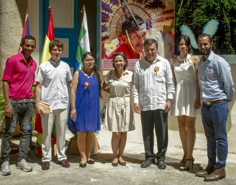 Embajador Juan Ramón Quintana junto a Jessica Suarez Mamani y Natalia Rodriguez Blanco en Cuba.